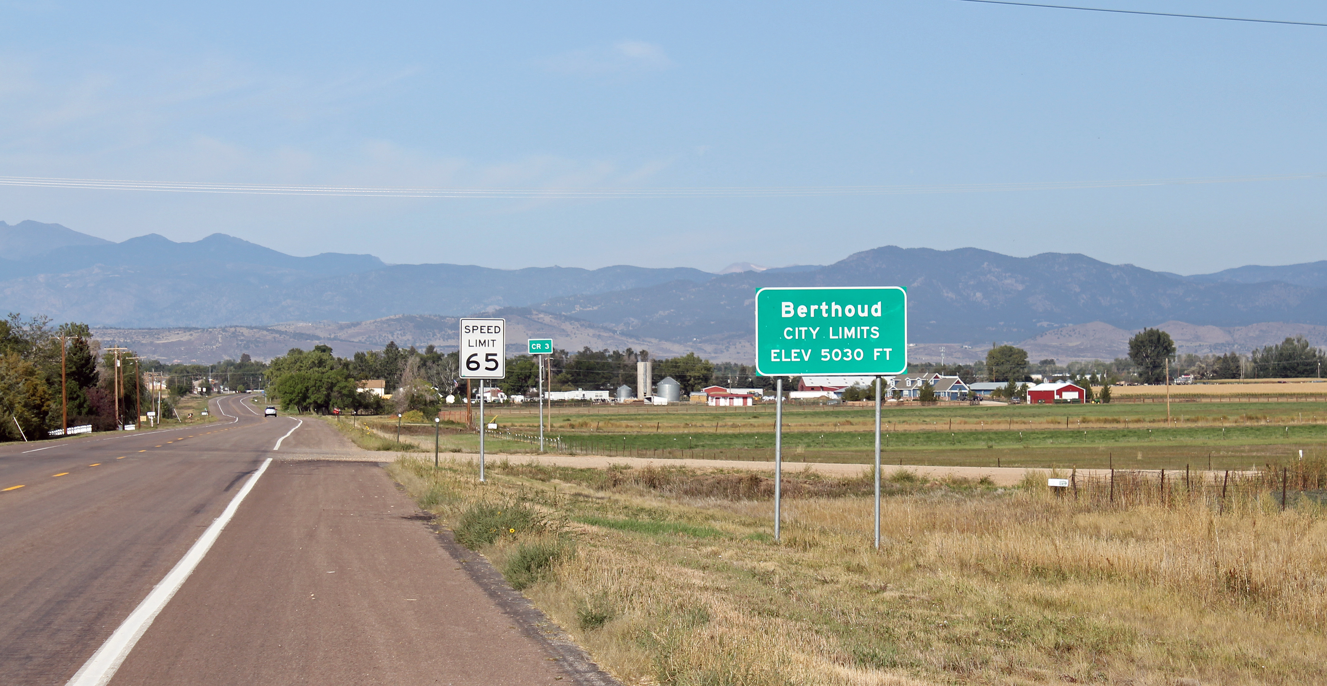 Entering the city of Berthoud, Colorado, from the east.